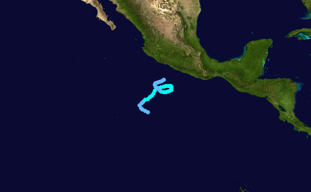 Tropical Storm Aletta (1982) track. Uses the color scheme from the Saffir-Simpson Hurricane Scale.